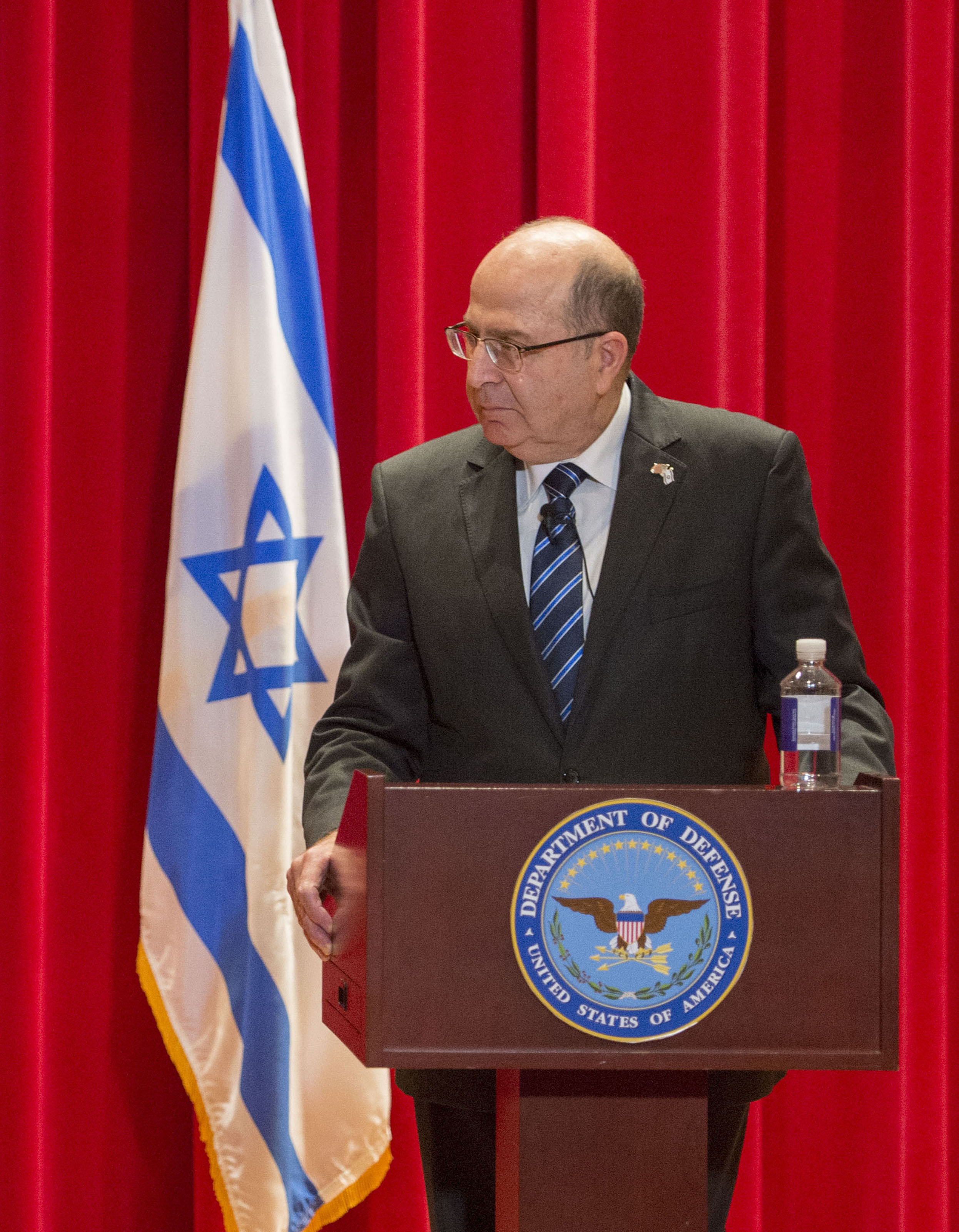 Moshe Ya'alon, Israel's Minister of Defense, October 2015 Secretary of Defense Ash Carter and Israel's Minister of Defense Moshe Ya'alon speak to a class of U.S. and international students at National Defense University, Washington D.C., Oct. 27, 2015. (Photo by Senior Master Sgt. Adrian Cadiz)(Released)